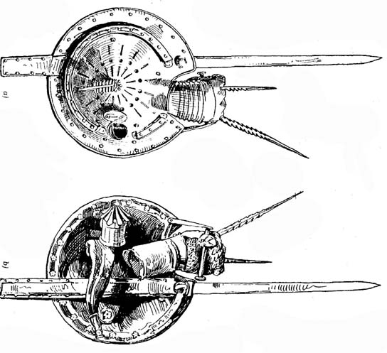 Type of shield, illustration from a book "Handbuch der Waffenkunde. Das Waffenwesen in seiner historischen Entwicklung vom Beginn des Mittelalters bis zum Ende des 18. Jahrhunderts" by Wendelin Boeheim, Leipzig, 1890